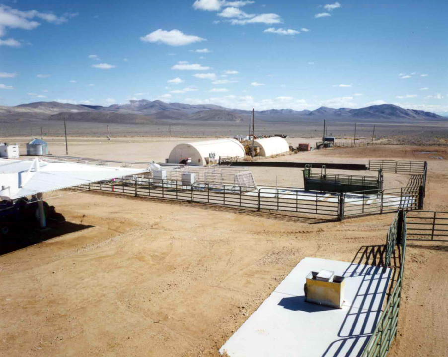 Nevada Test Site. EPA Farm.